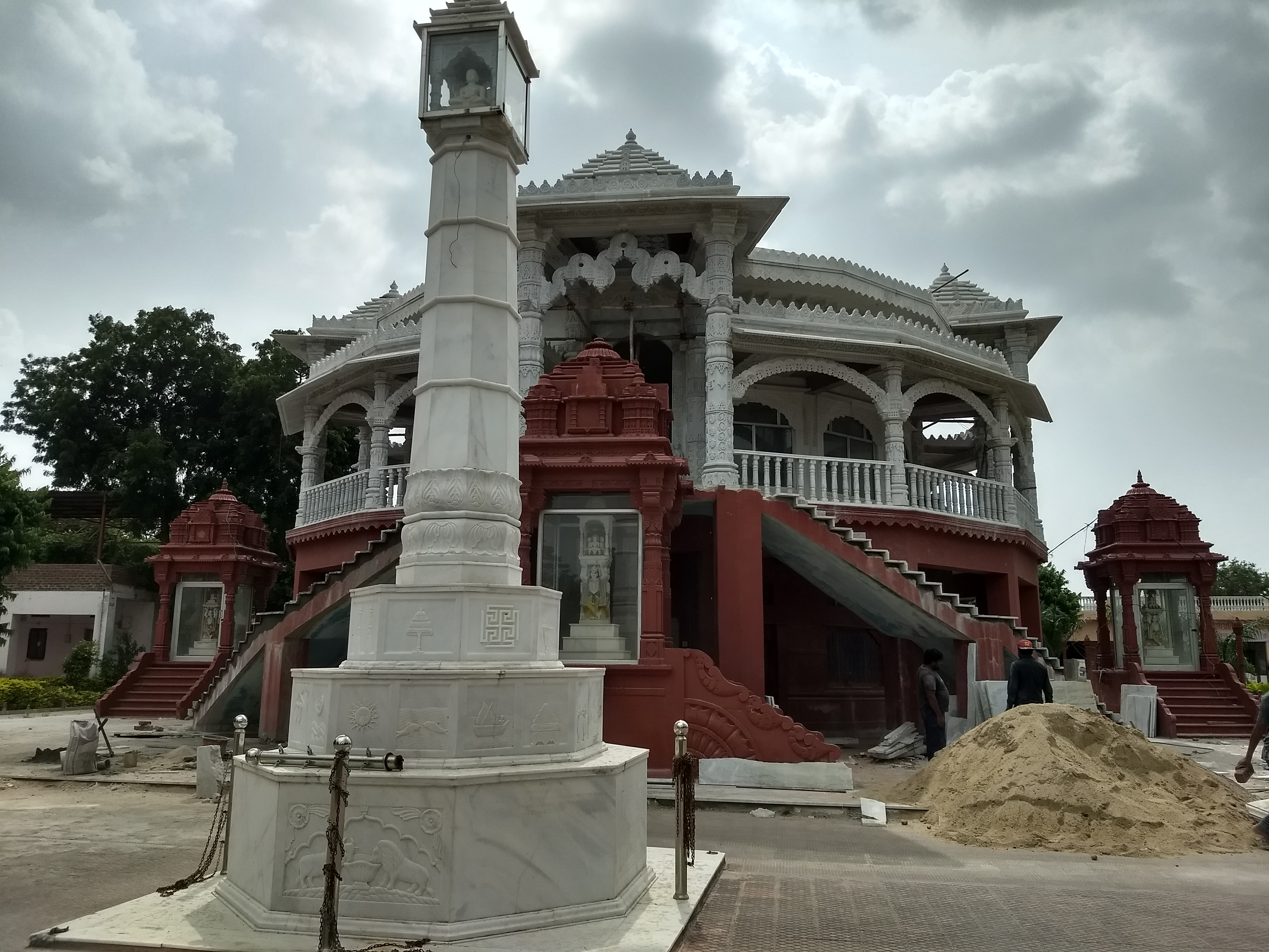 Bijoliya Parasnath Jain temple